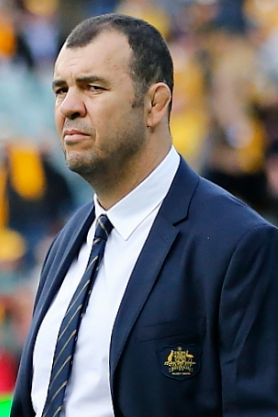 2017.06.17.14.51.58-Michael Cheika-0002 The 2017 mid-year rugby union international, 17 June 2017, Australia vs Scotland at Allianz Stadium, Sydney